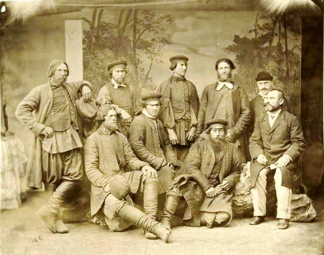 The Molokane.